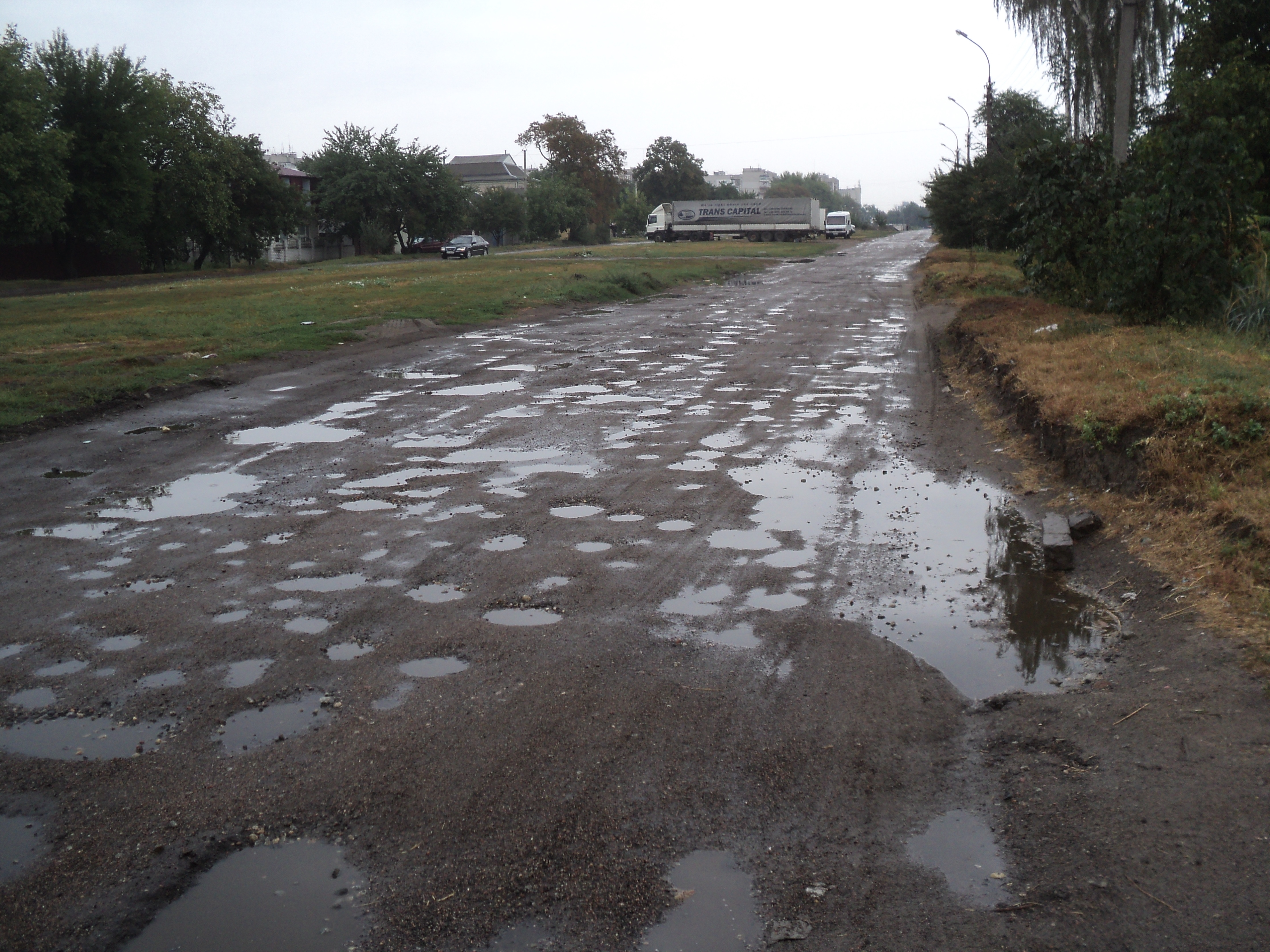 Pasterivs'ka street of Cherkasy, Ukraine. September, 2018